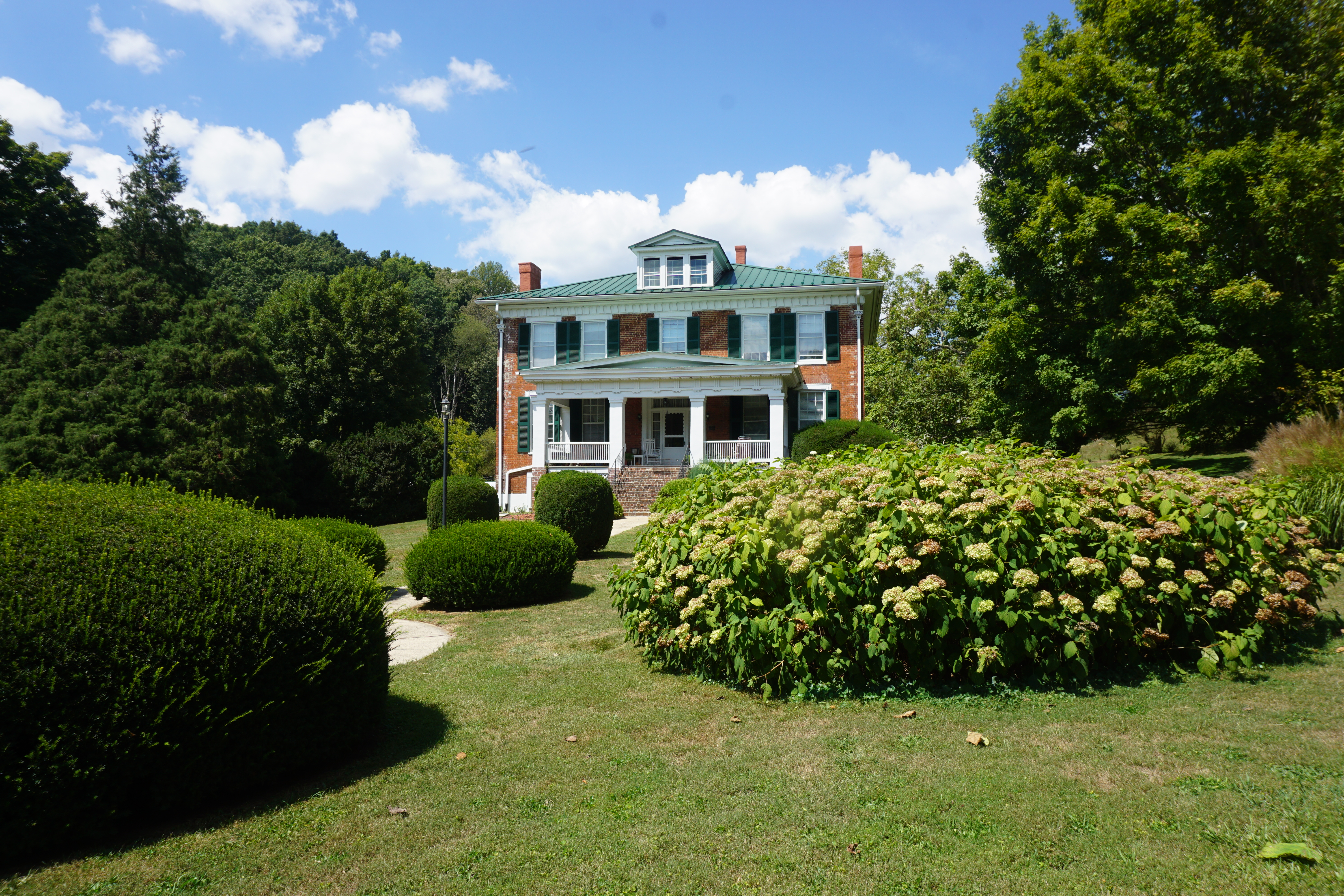 View of the main house on Smithfield farm in Rosedale, Virginia in September 2019